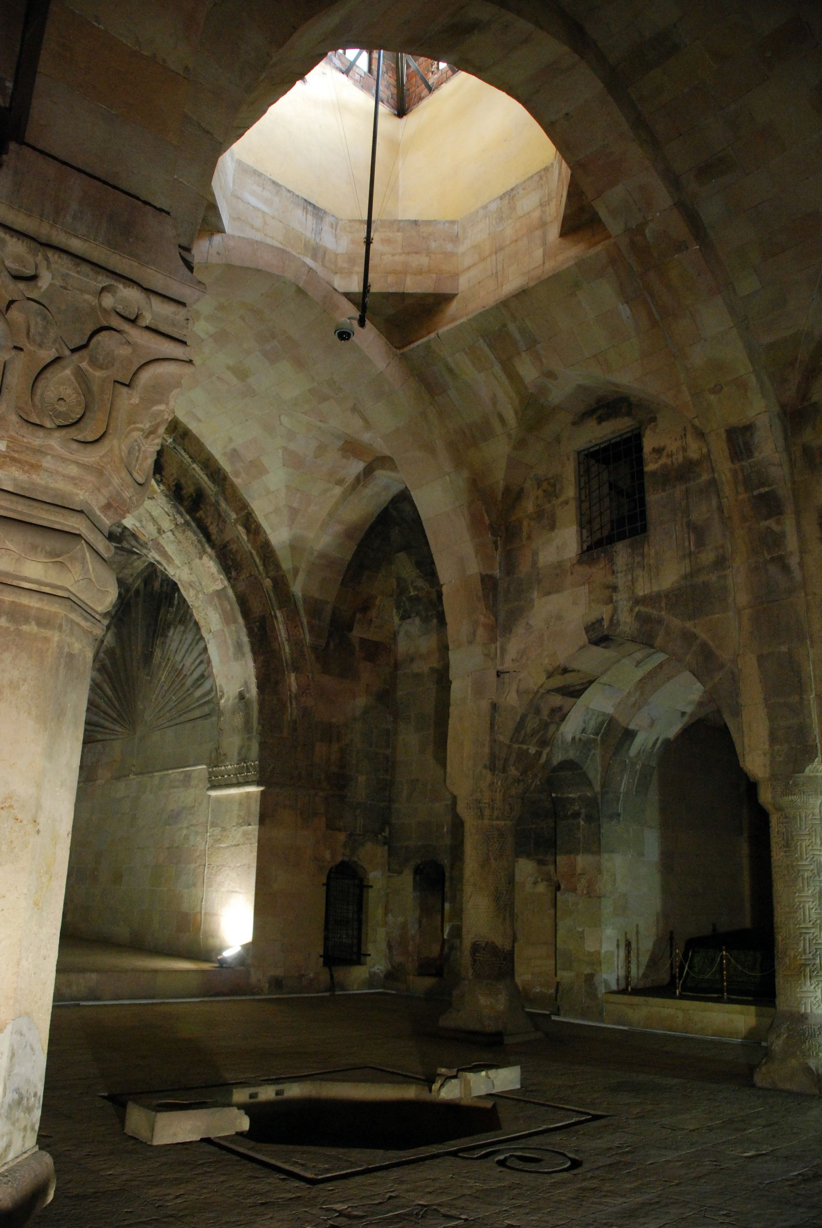 Divriği, Hospital